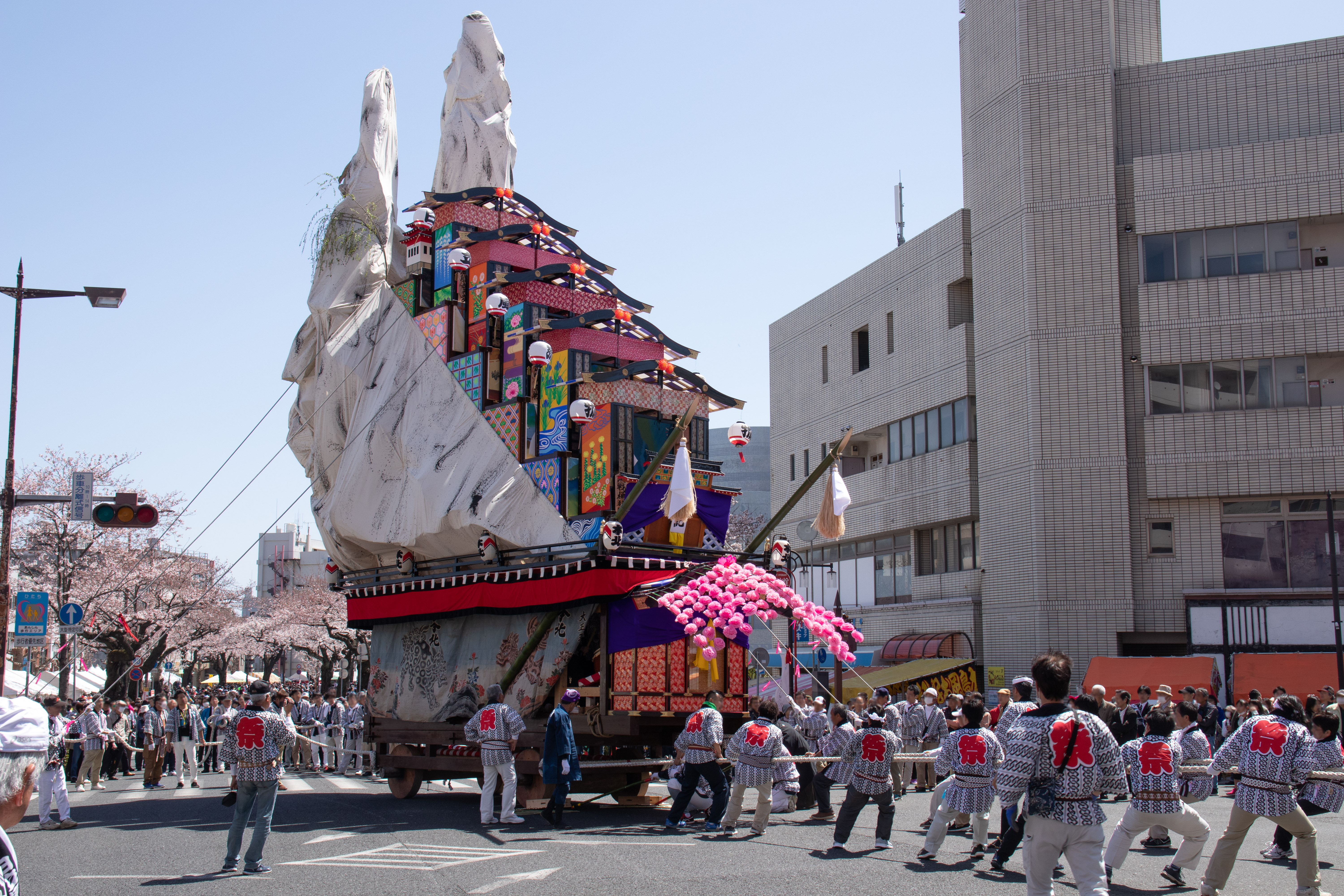 Hitachi Furyumono, Hitachi City, Ibaraki, Japan Canon EOS 80D + Sigma 17-70mm F2.8-4 DC Macro OS HSM